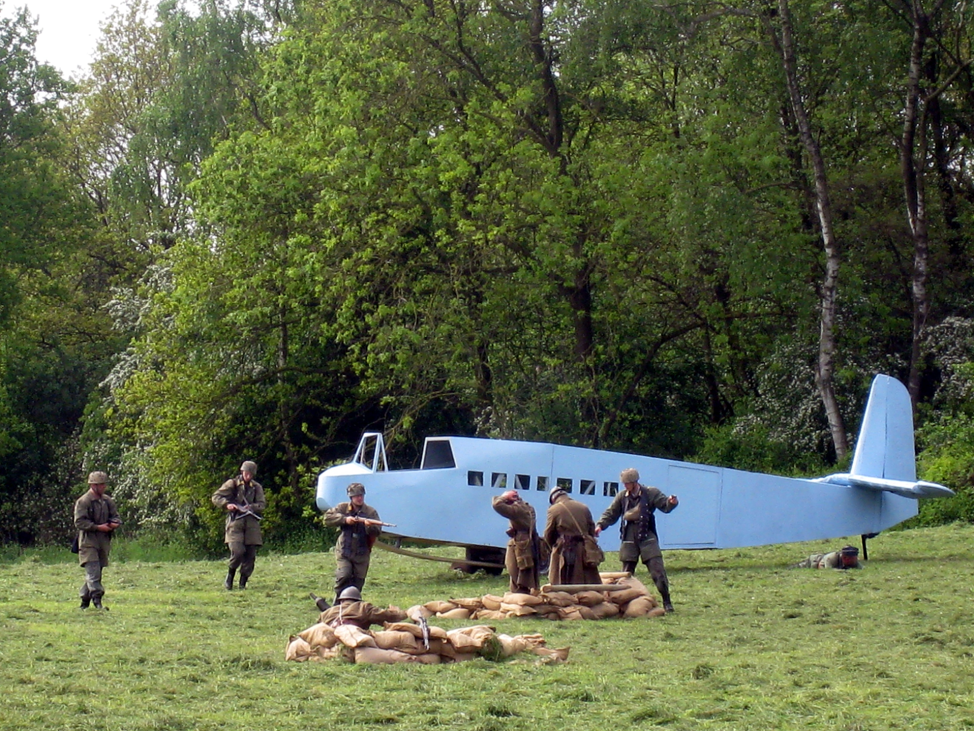 attack Fort Eben-Emael May 10, 1940